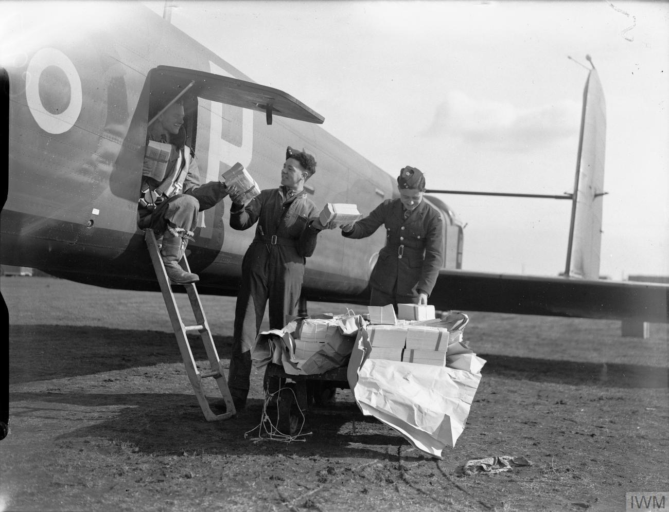 Royal Air Force Bomber Command, 1939-1941. Ground crewmen hand propaganda leaflets to a crew member of Armstrong Whitworth Whitley Mark V, N1386 'DY-P', of No. 102 Squadron RAF at Driffield, Yorkshire, prior to a leaflet-dropping ("Nickelling") sortie over Germany.